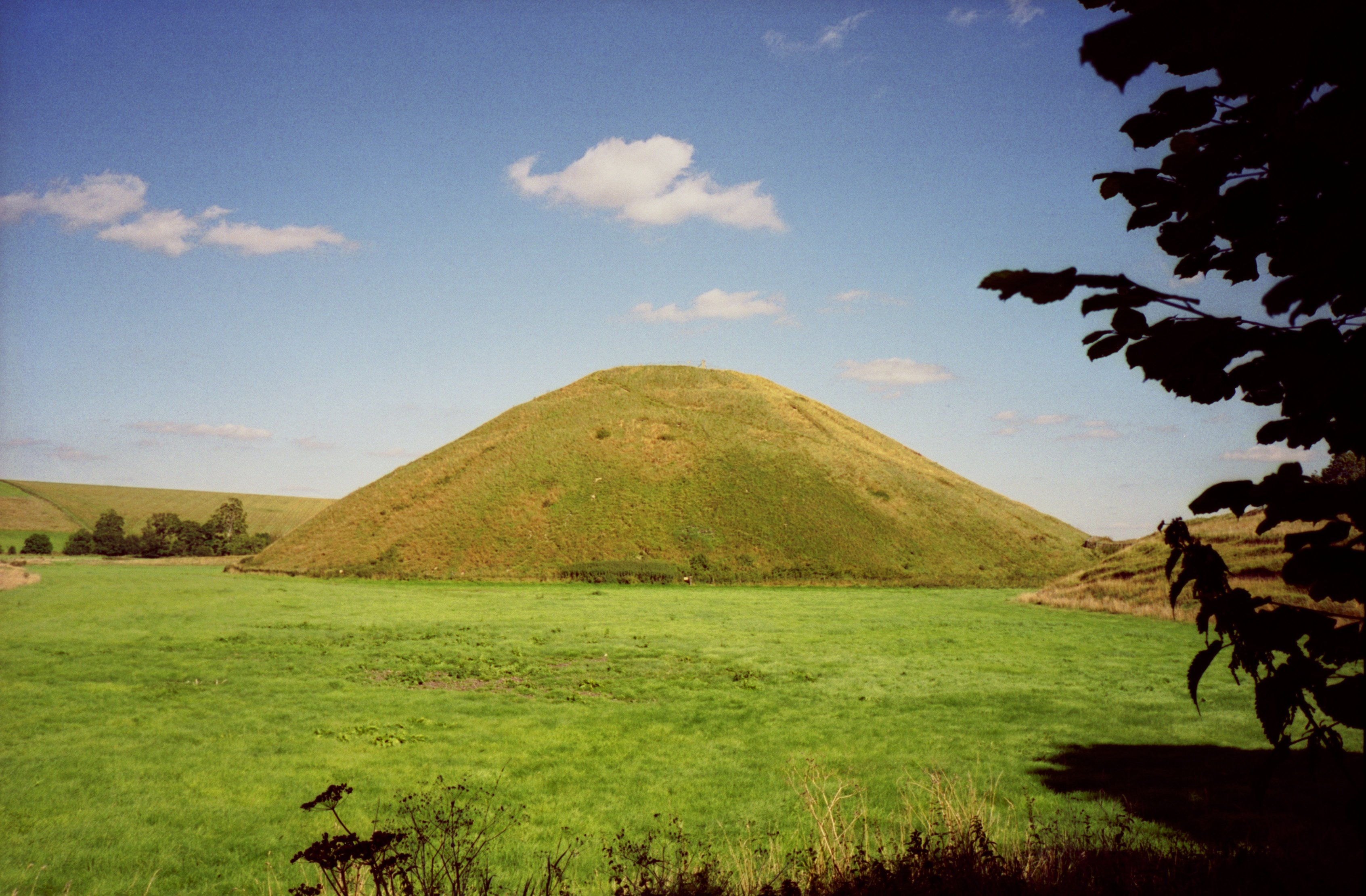 Silbury Hill, Wiltshire, UK.